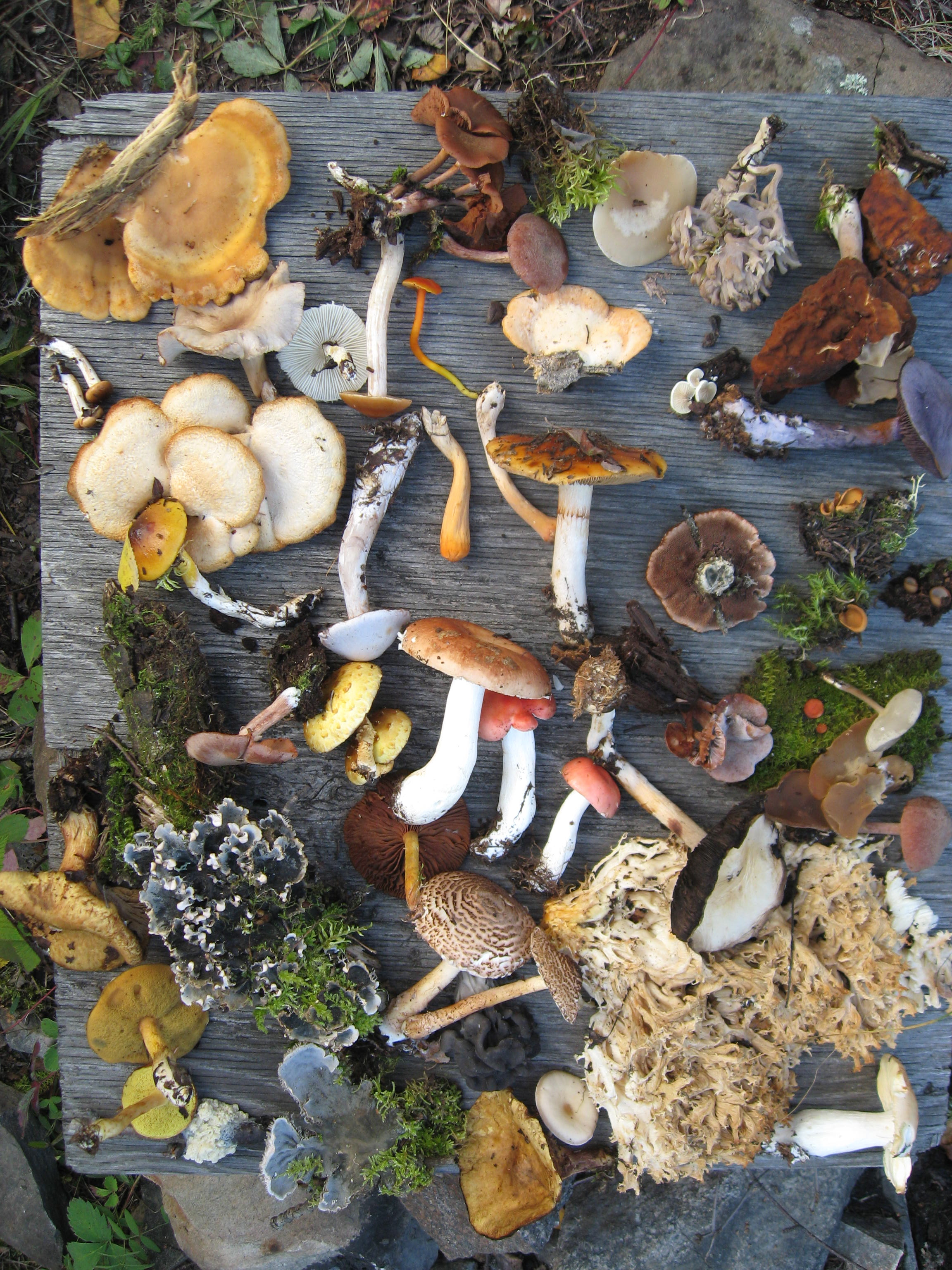 Sampling of fungi collected from summer, 2008 foray in Northern Saskatchewan mixed woods, near LaRonge In this photo, there are a few leaf lichens, probably Icelandmoss (Cetraria Icelandia), a couple of mosses or liverworts... (Bryophytes), peatland moss, (Sphagnum) as well as mushrooms. Online references in regards to lichens... CalPhotos: Cetraria islandica; Iceland Moss Cetraria (Iceland Moss) GETTING TO KNOW YOUR PRAIRIE LICHENS GETTING TO KNOW YOUR BOREAL LICHENS Medicinal Lichens”, by Robert Rogers Identifying North American Lichens--A Guide to the Literature